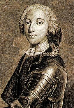 French corsair and naval officer François Thurot (1727-1760)